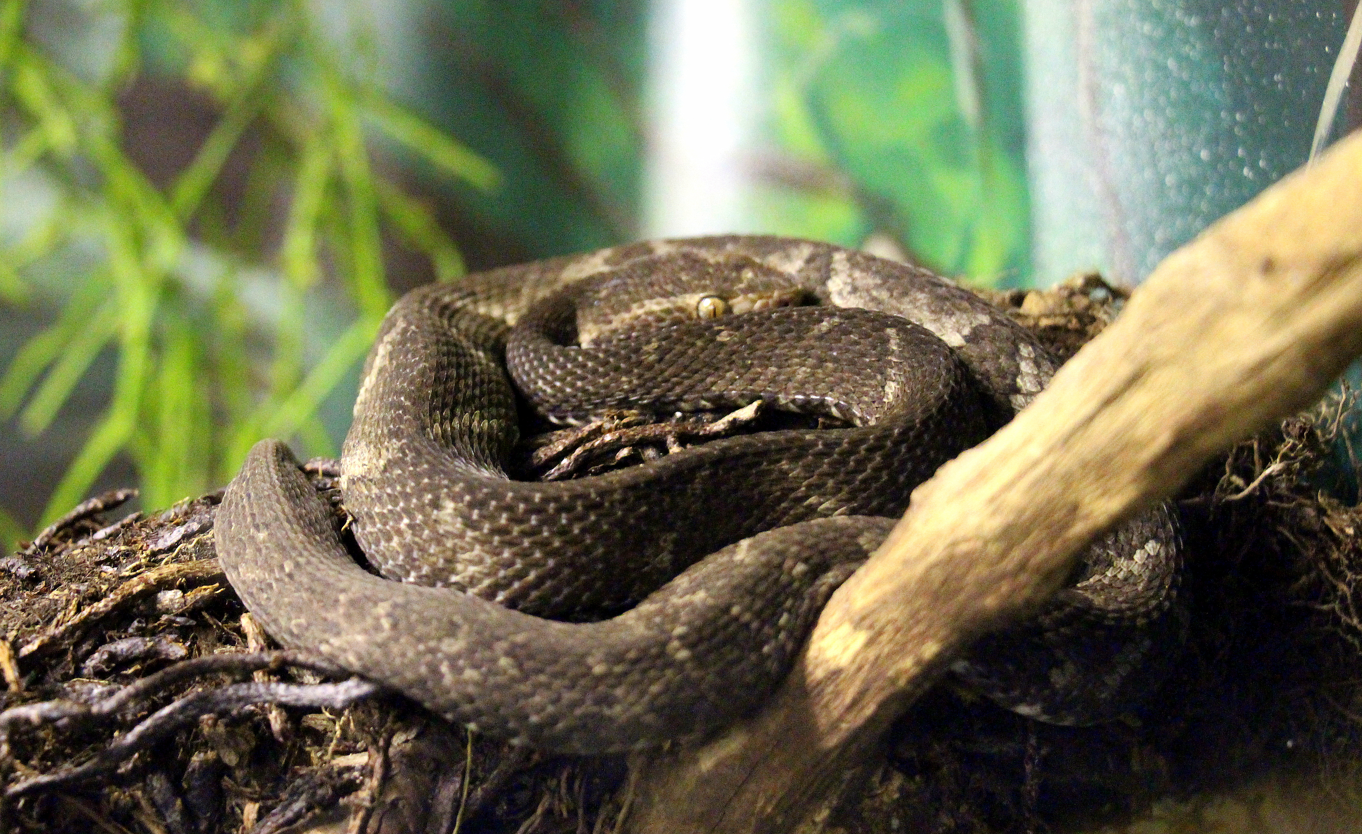 Alcatraz Lancehead (Bothrops alcatraz) at Instituto Butantã.